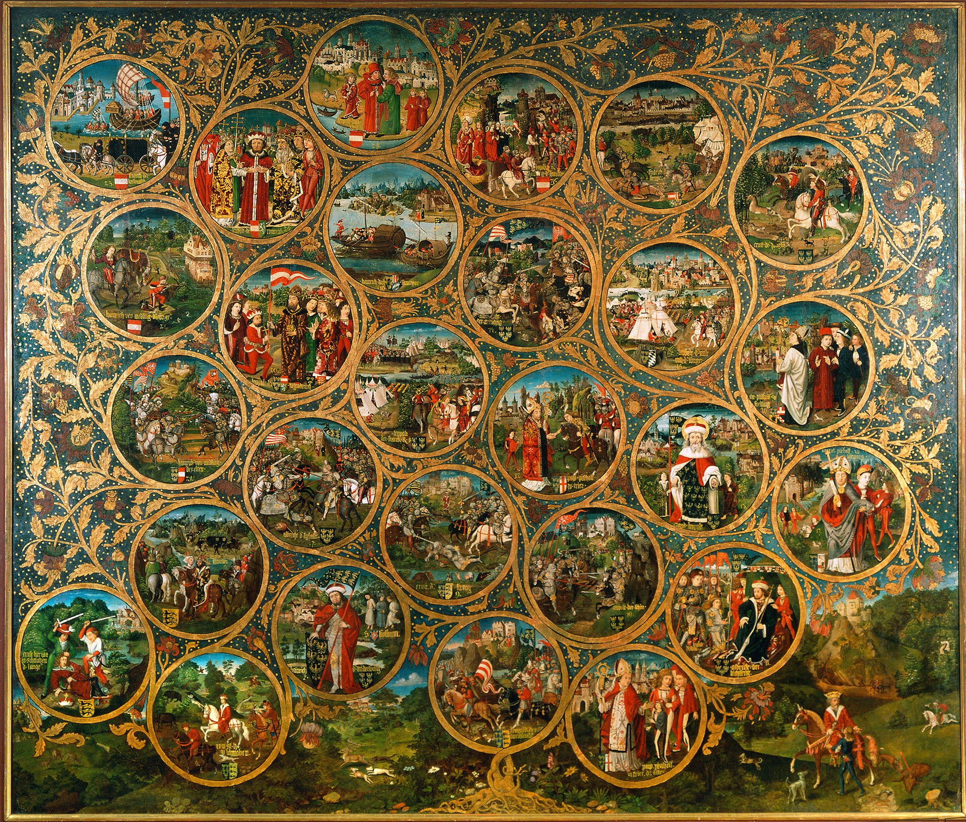 central part of the tryptych